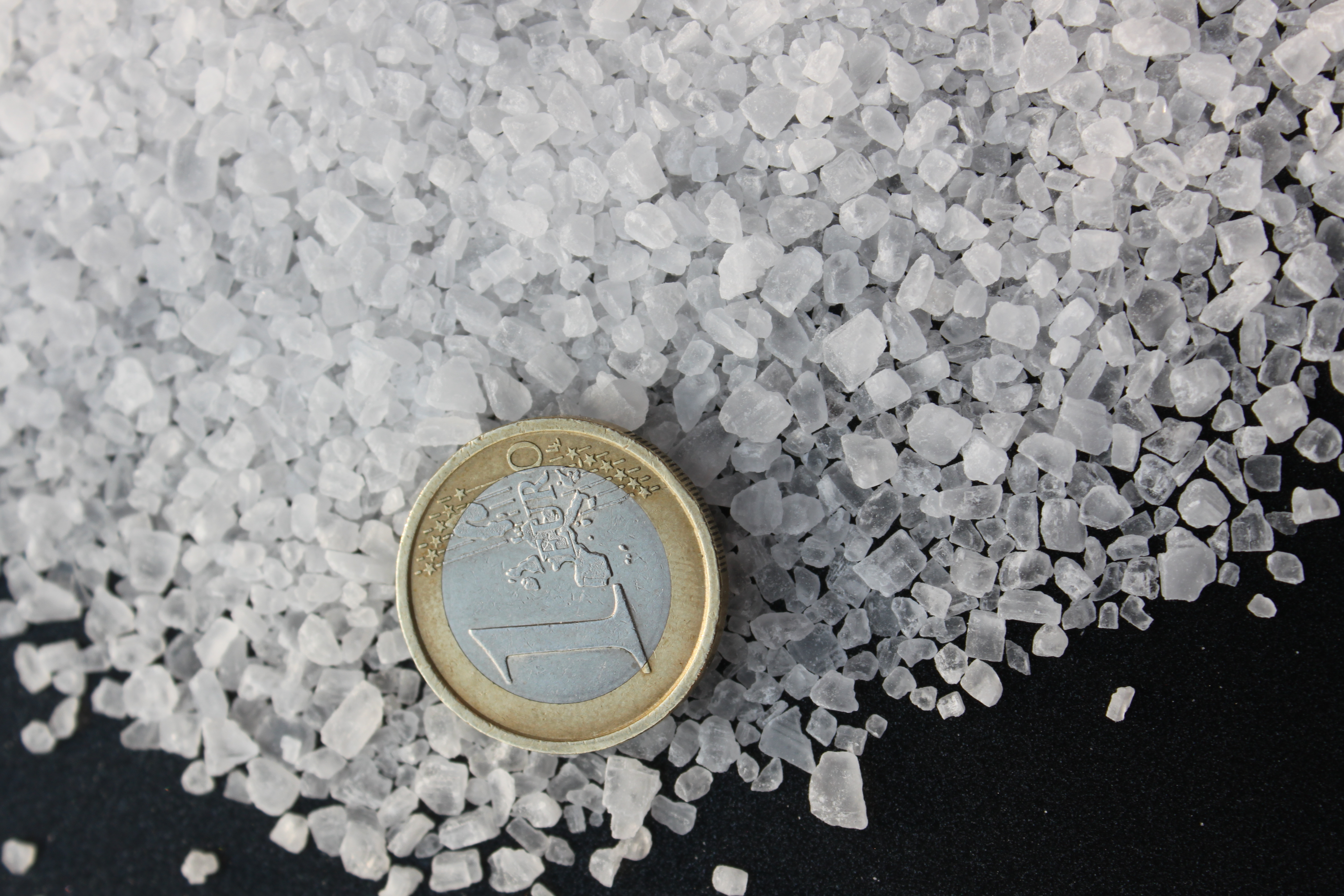 Coarse salt and euro coins